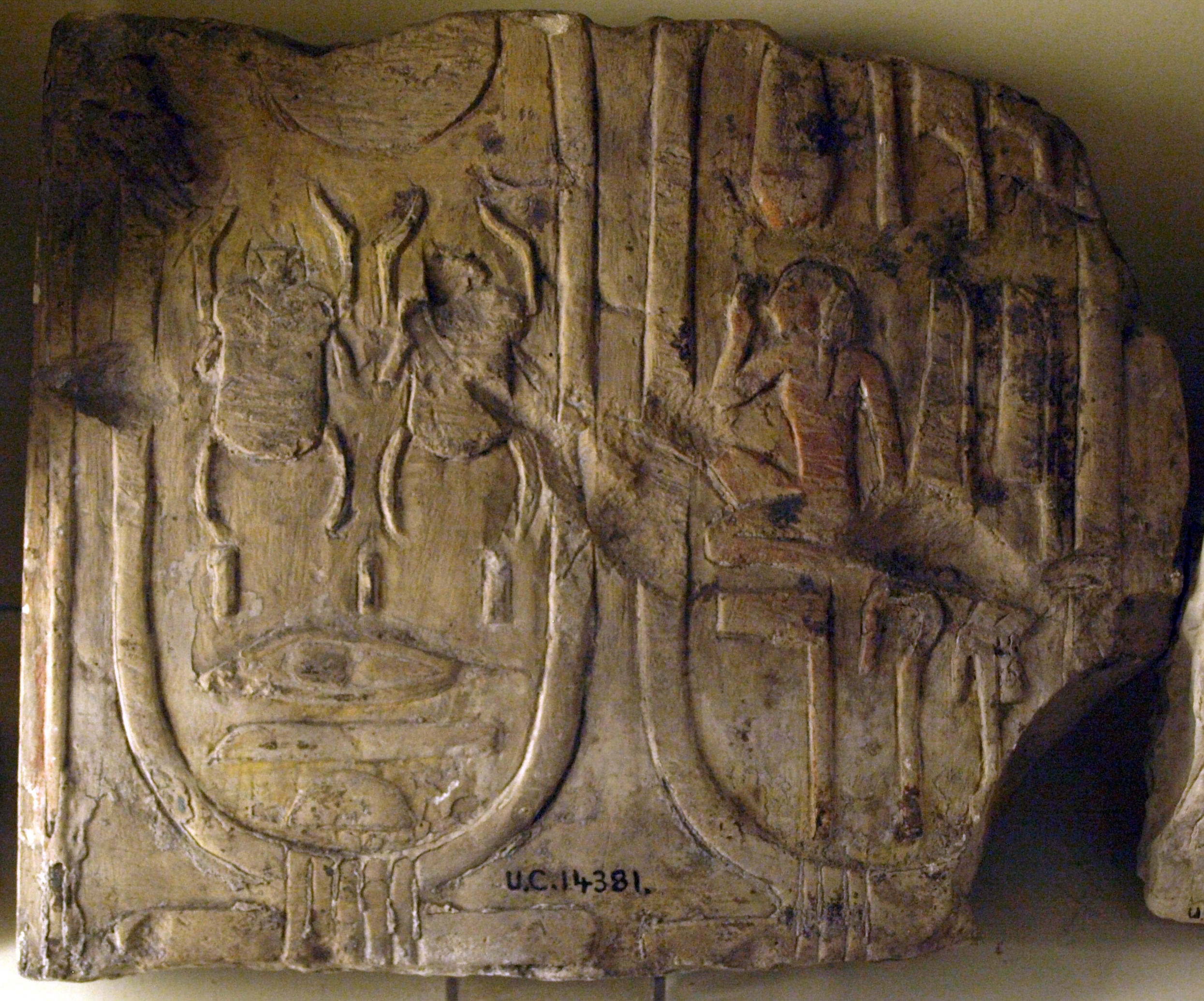 Fragment of a relief inscribed with the names of the pharaoh Ay. Of unknown provenance, from the time of the 18th dynasty. UC 14381.